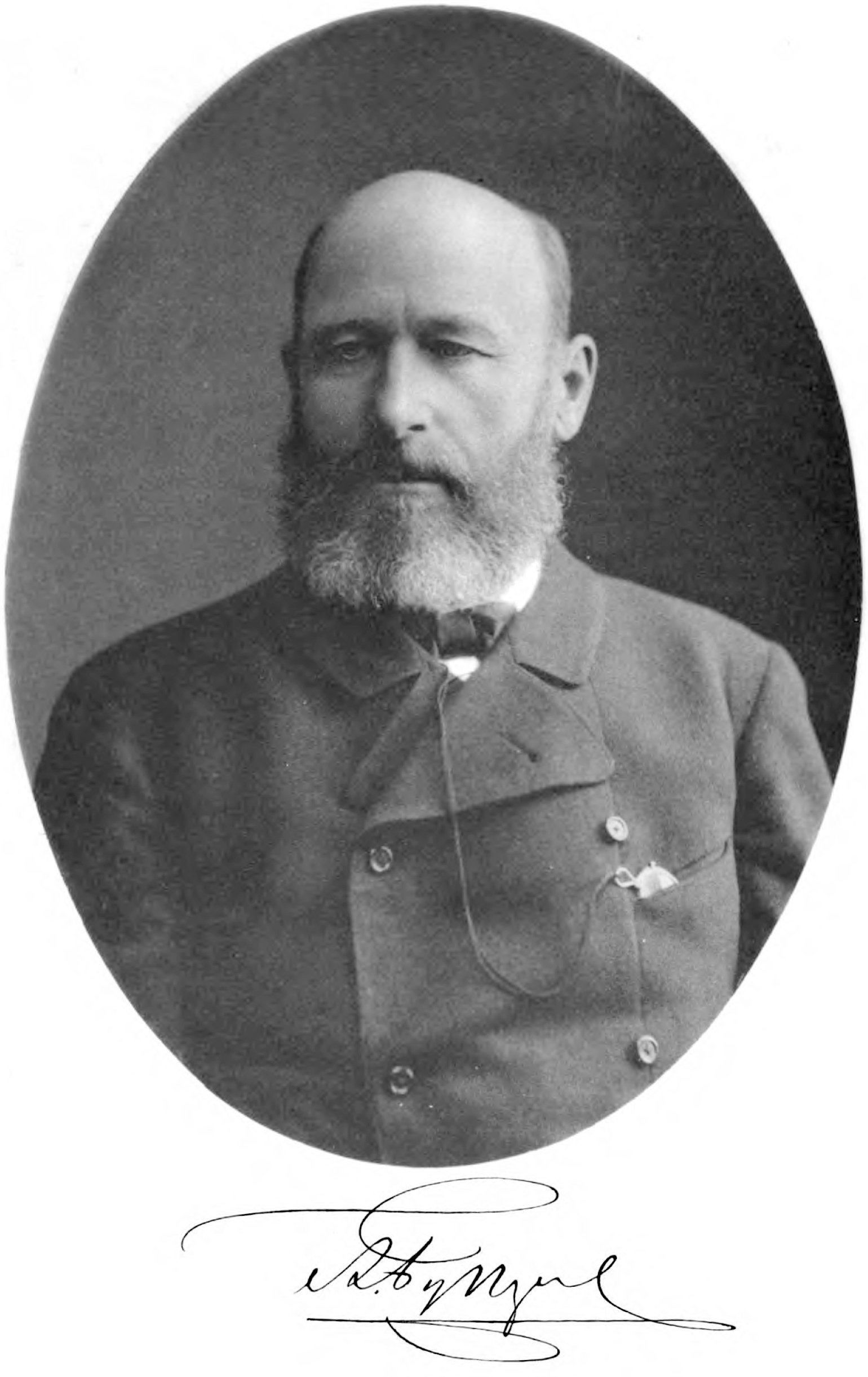 Portrait Frontispiece of Aleksandr Michajlovič Butlerov from Stat'i po mediumizmu. S vospominan'em ob A. M. Butlerove, N. R. Vagnera. Spb. : A. N. Aksakov, 1889